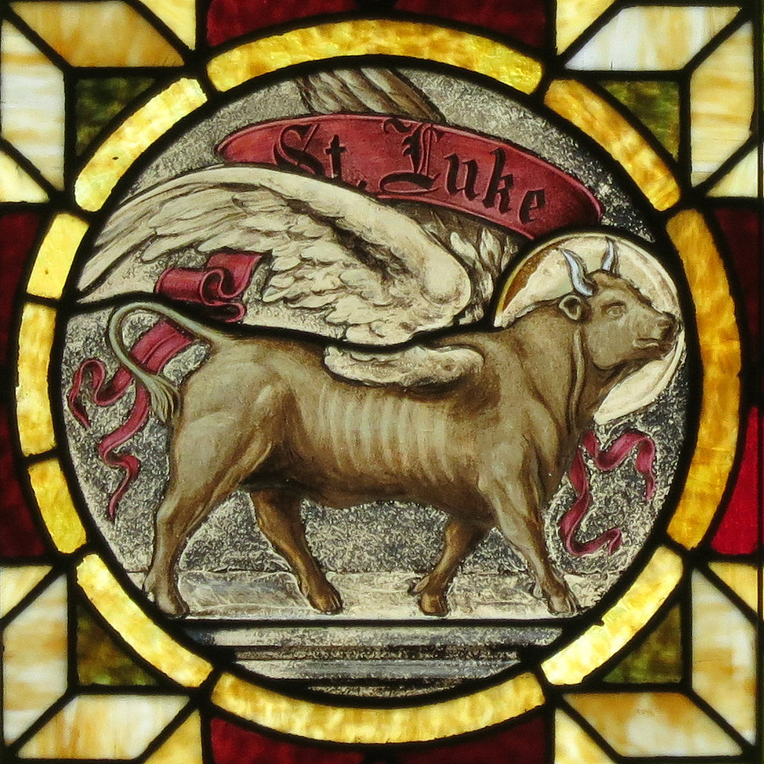 Saint John the Baptist Catholic Church (Dry Ridge, Ohio) - stained glass, Bull of St. Luke